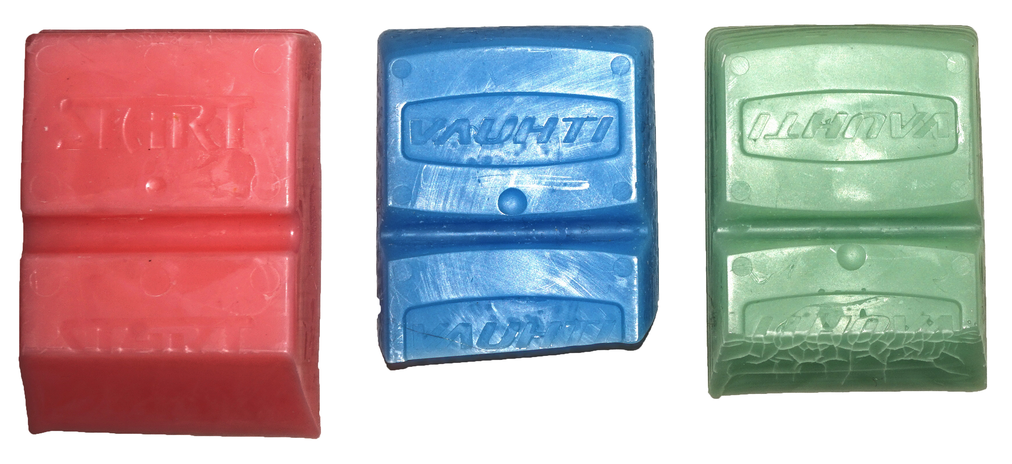 Glide waxes for skis. Red: Start LF (0°C...-3°C). Blue: Vauhti LF Cold (-1°C...-10°C). Green: Vauhti LF Polar (-1°C...-25°C).